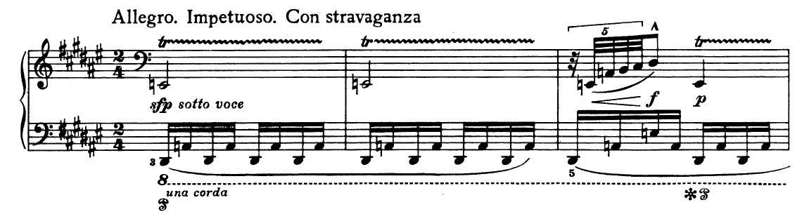 The first 3 bars of Scriabin's 5th Sonata